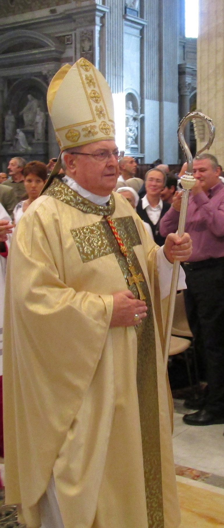 Cardinal Leonardo Sandri, Oct., 11th, 2014